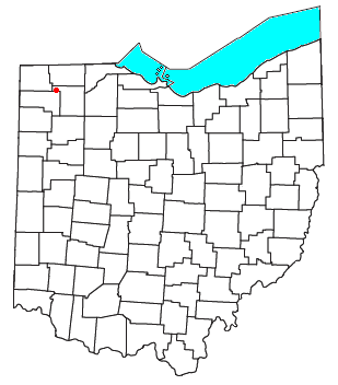 Locator map of the unincorporated community of Ridgeville Corners in Henry County, Ohio, United States.